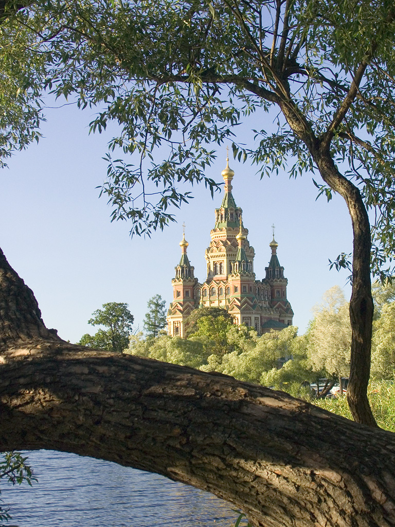 Peterhof (Russia), Cathedral of Peter and Pavel